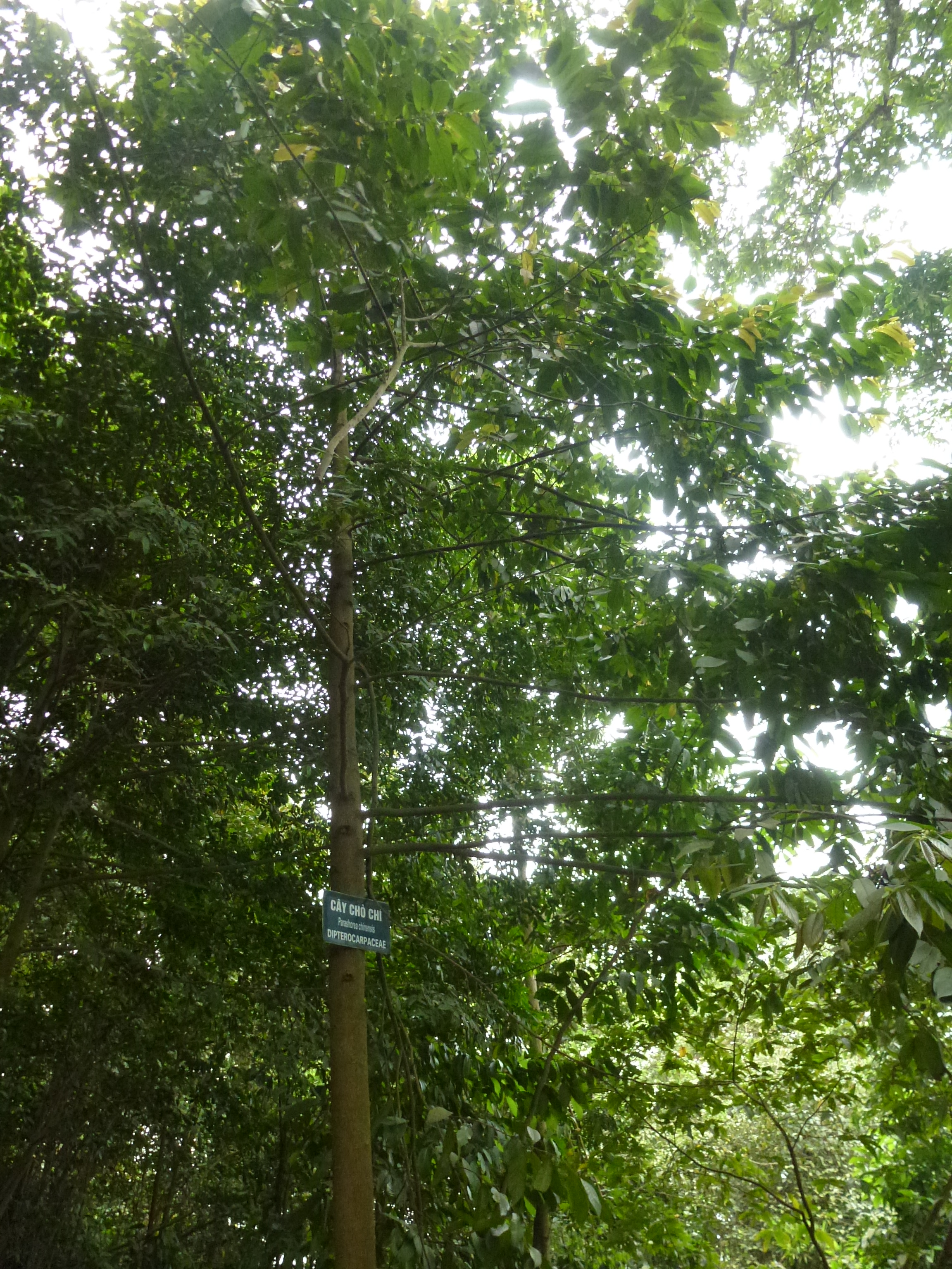 Parashorea chinensis in Hùng Temple, Vietnam